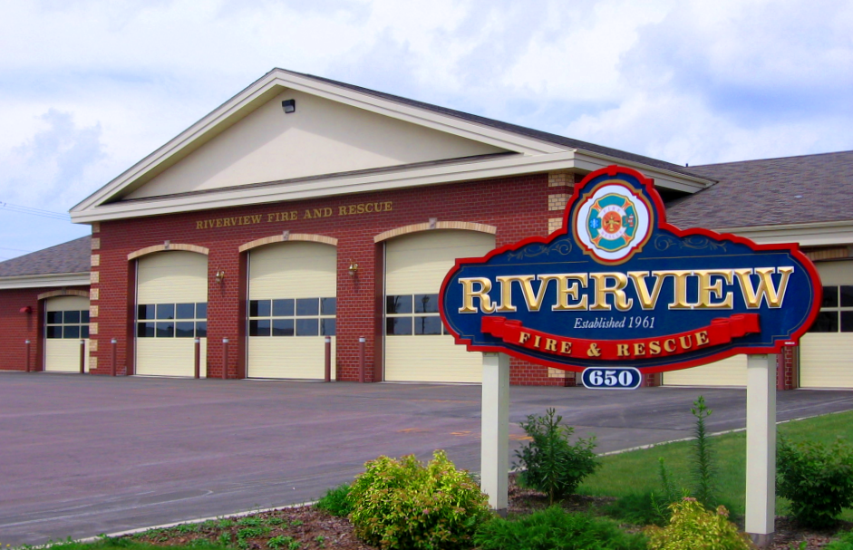 Photo of new Riverview Fire Station, Riverview, New Brunswick. Self made photo to illustrate article about Riverview, New Brunswick, Canada. Straightened, cropped and increased colour saturaton.